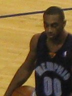 Darrell Arthur in December 2008.